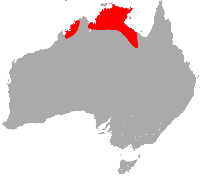 Narrow-eared Roundleaf Bat (Hipposideros stenotis) range